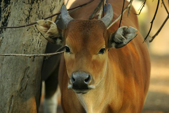 Wild Cow.